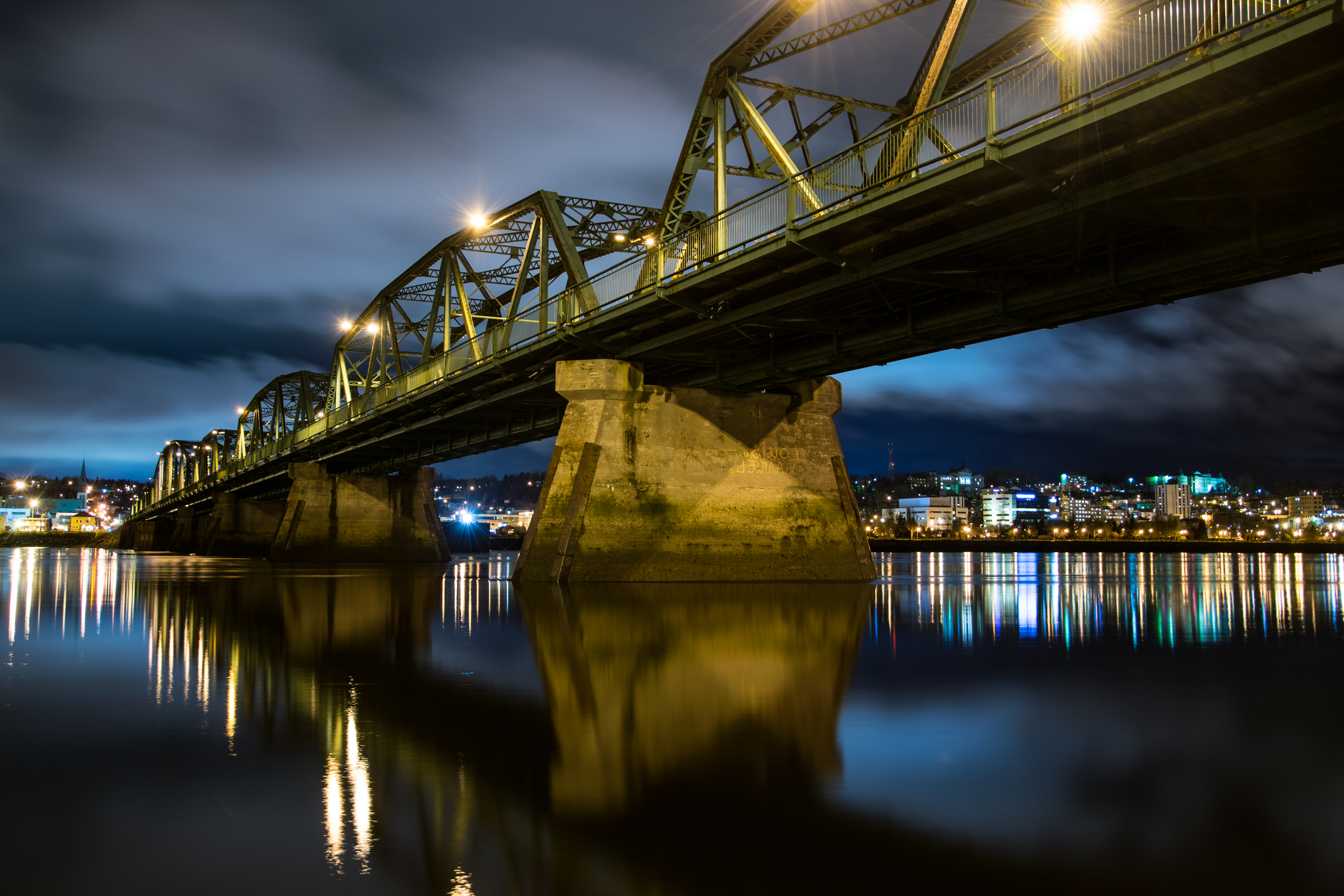 The Sainte-Anne bridge above the Saguenay River with the lights of Chicoutimi (Quebec, Canada).